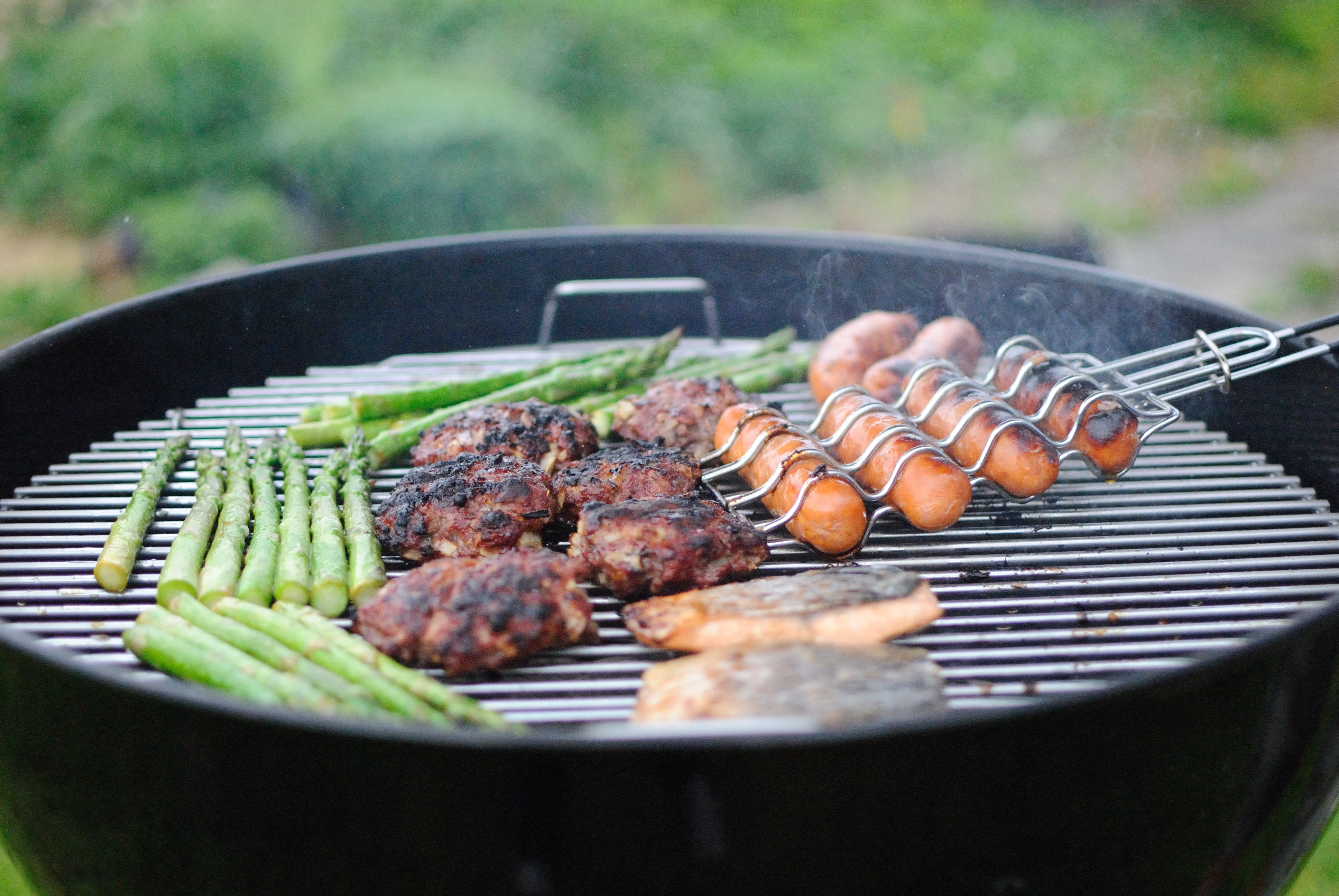 Declan Rex 2015